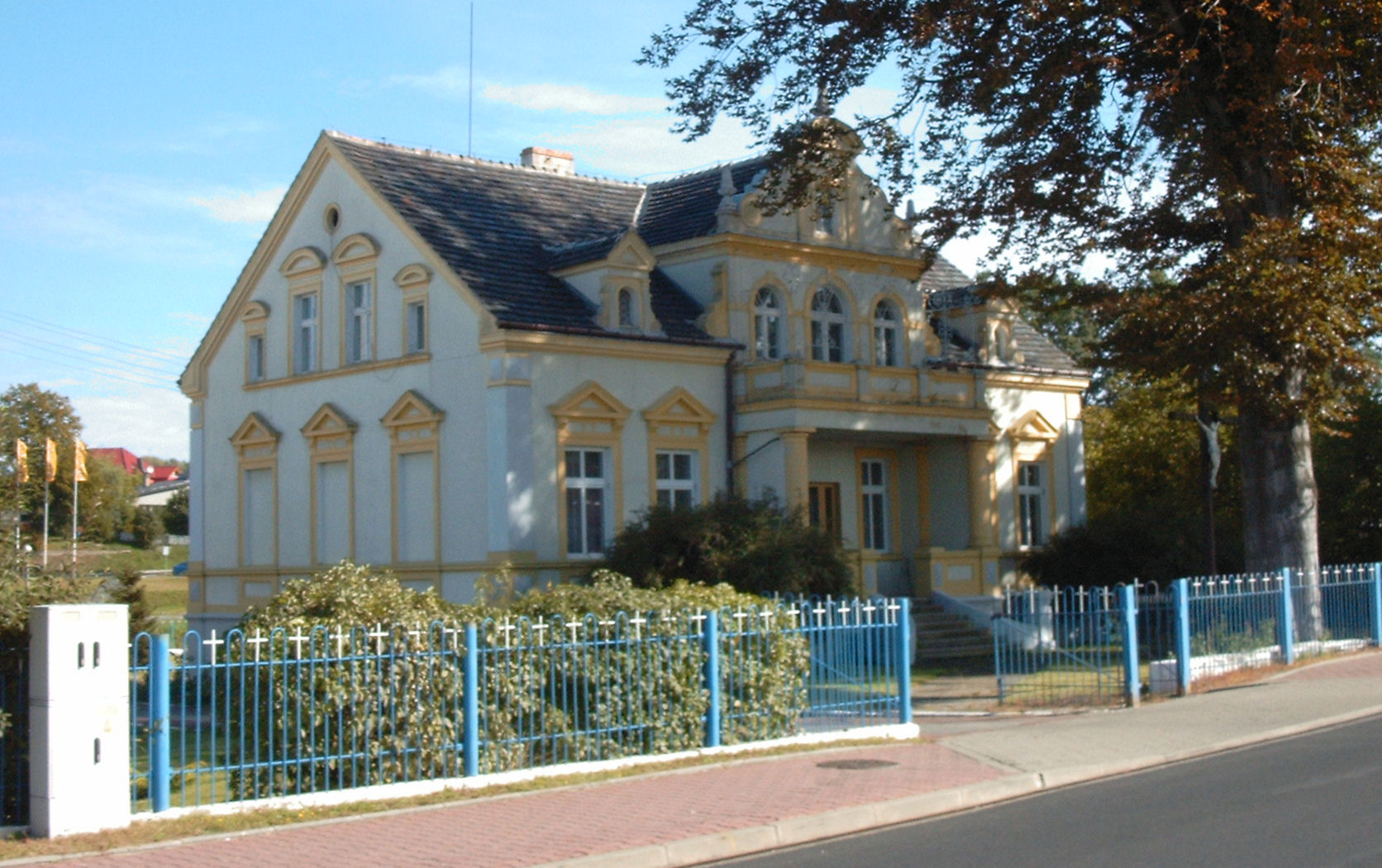 Rectory in Łęknica